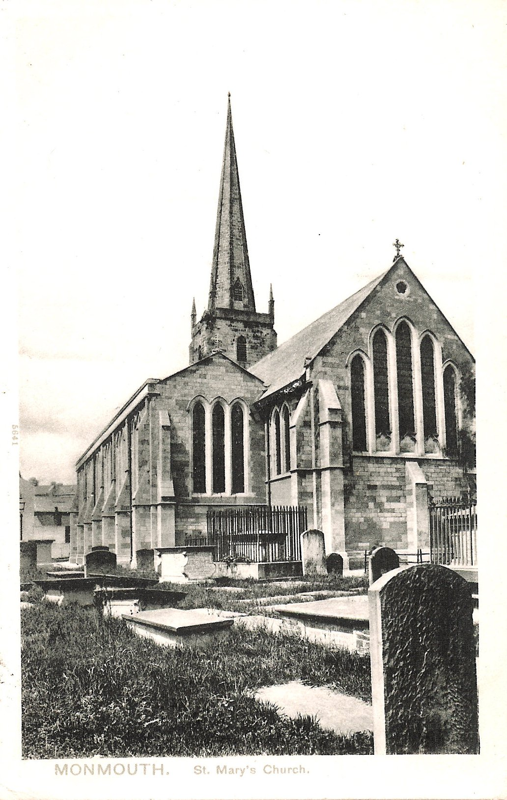 St Marys Church Monmouth - 1905